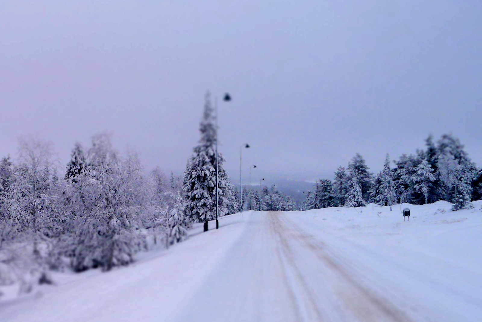 Snowy trees in Ruka, Finland. Took this by accident in 'tilt shift' mode but it doesn't look too bad...